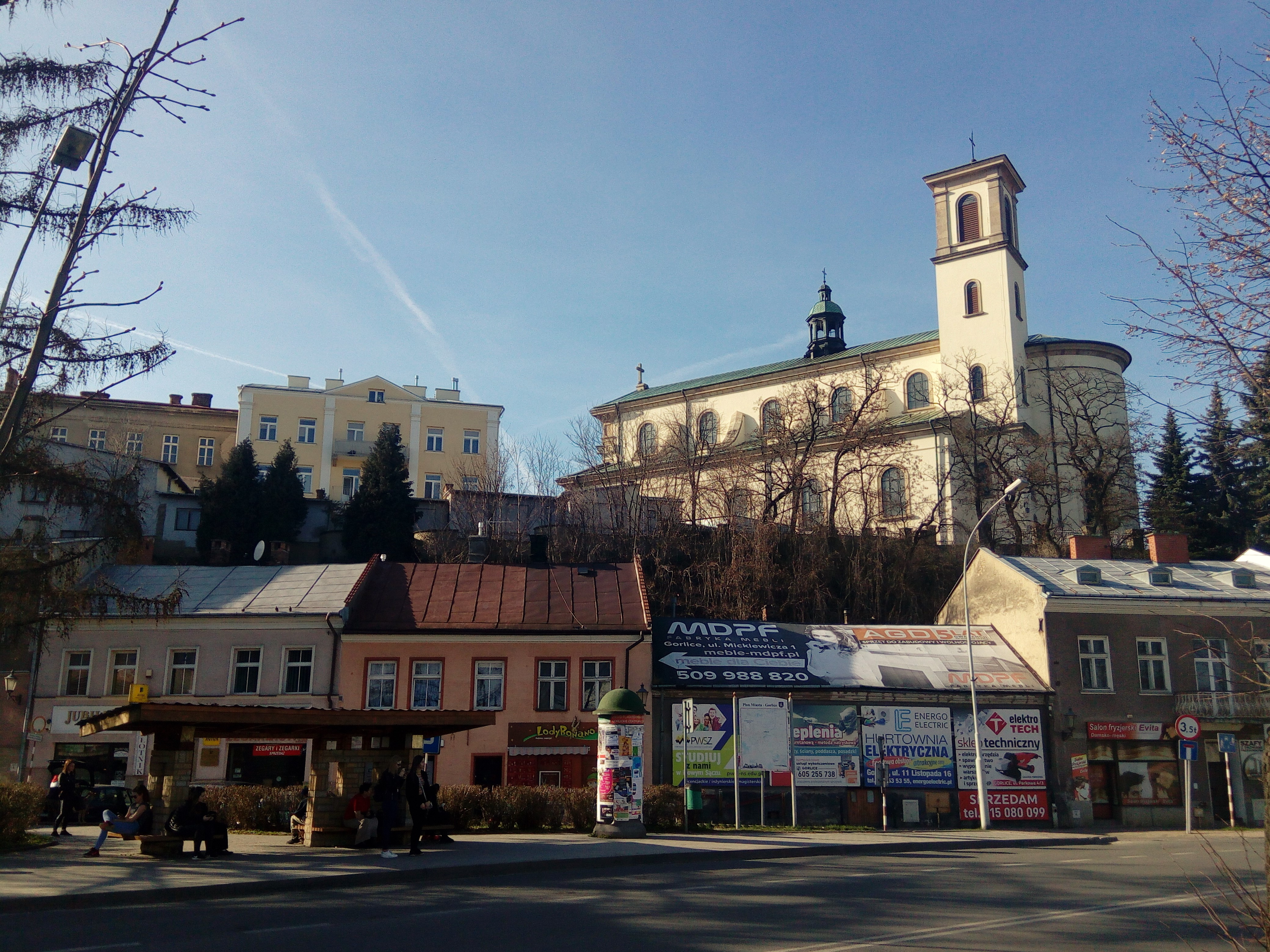 Gorlice, southern Poland. A view of the Nativity Basilica from Legionów Street.